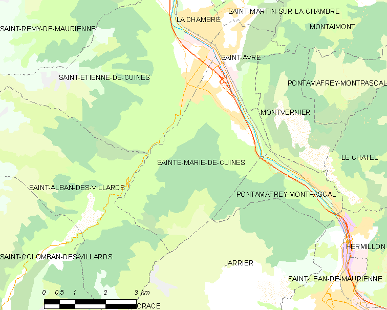 Map of French municipality